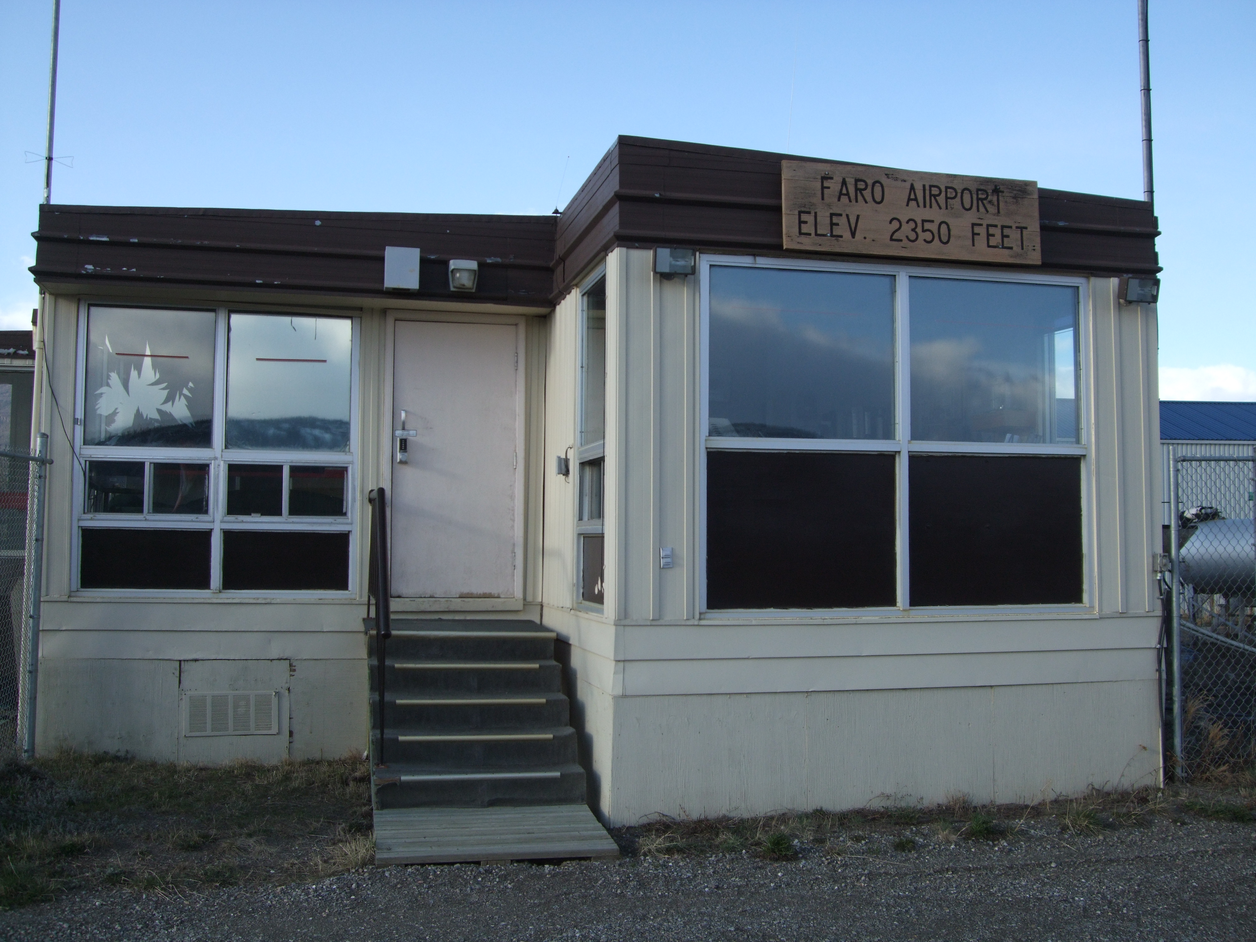 Terminal is unmanned. Call ahead for a ride if you plan on landing here.